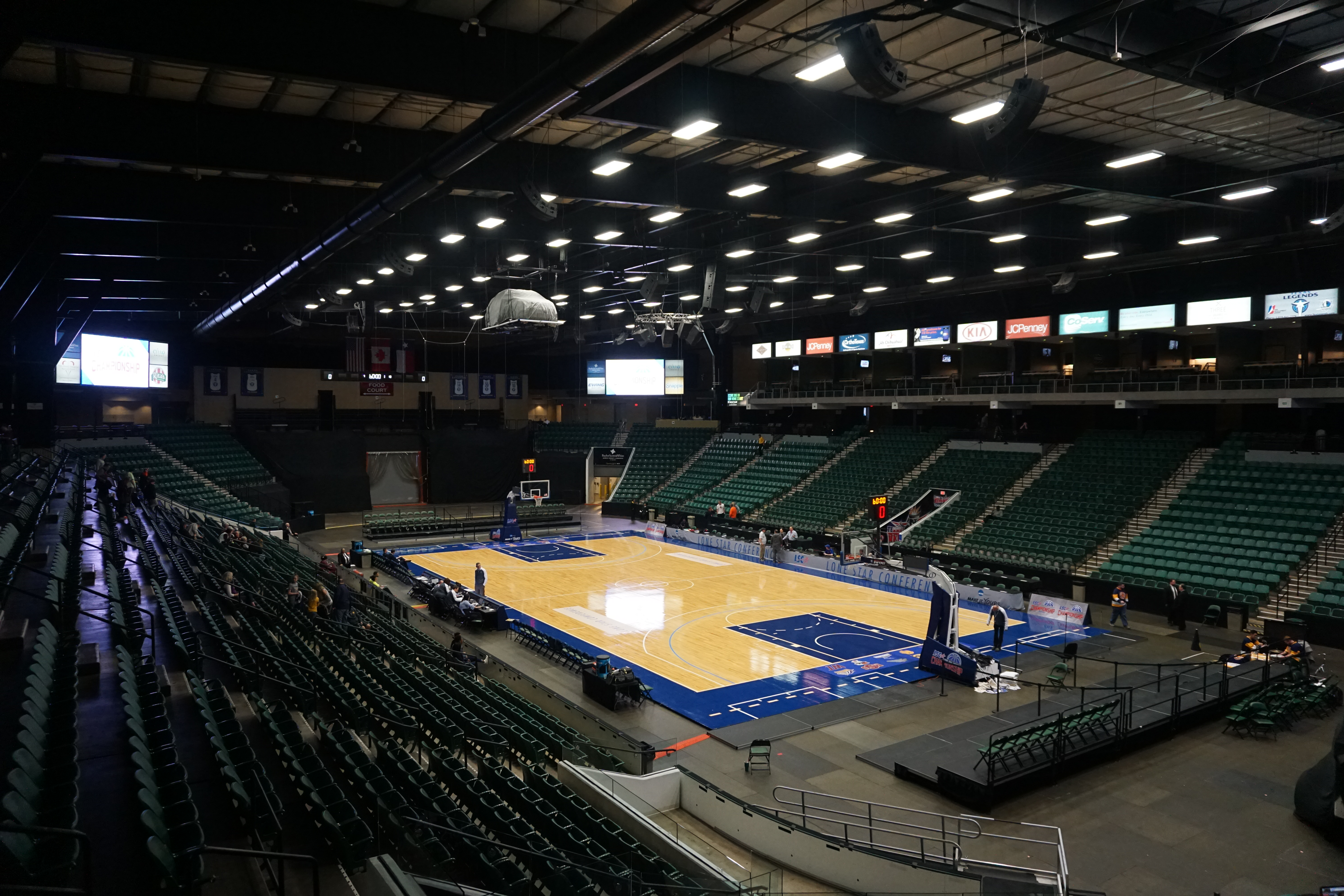 The interior of the arena before the Texas A&M–Commerce Lions vs. West Texas A&M Buffaloes women's basketball game at the 2018 Lone Star Conference Women's Basketball Championship at the Dr Pepper Arena in Frisco, Texas (United States). West Texas A&M won 68–55.